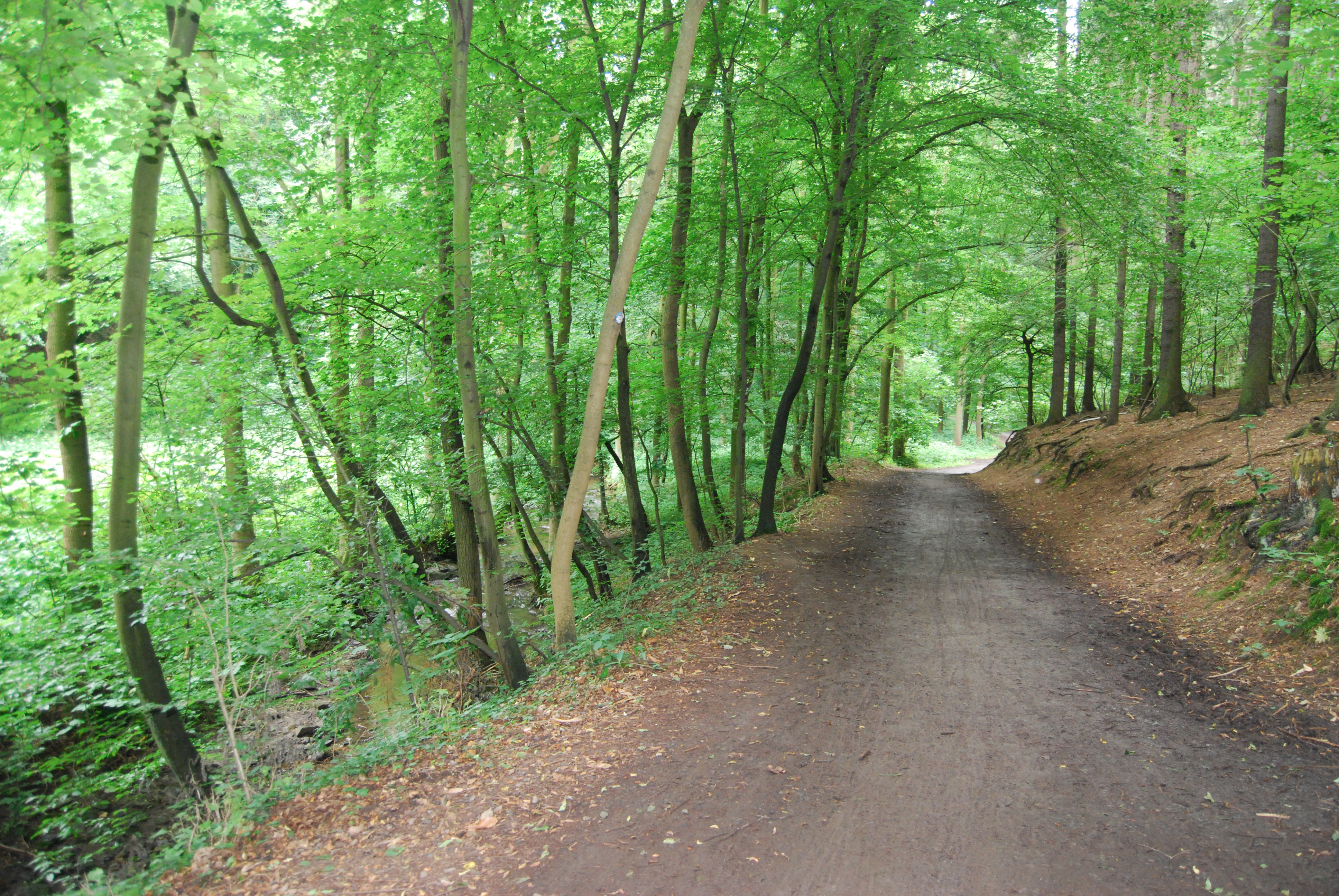 Path in Opárno valley